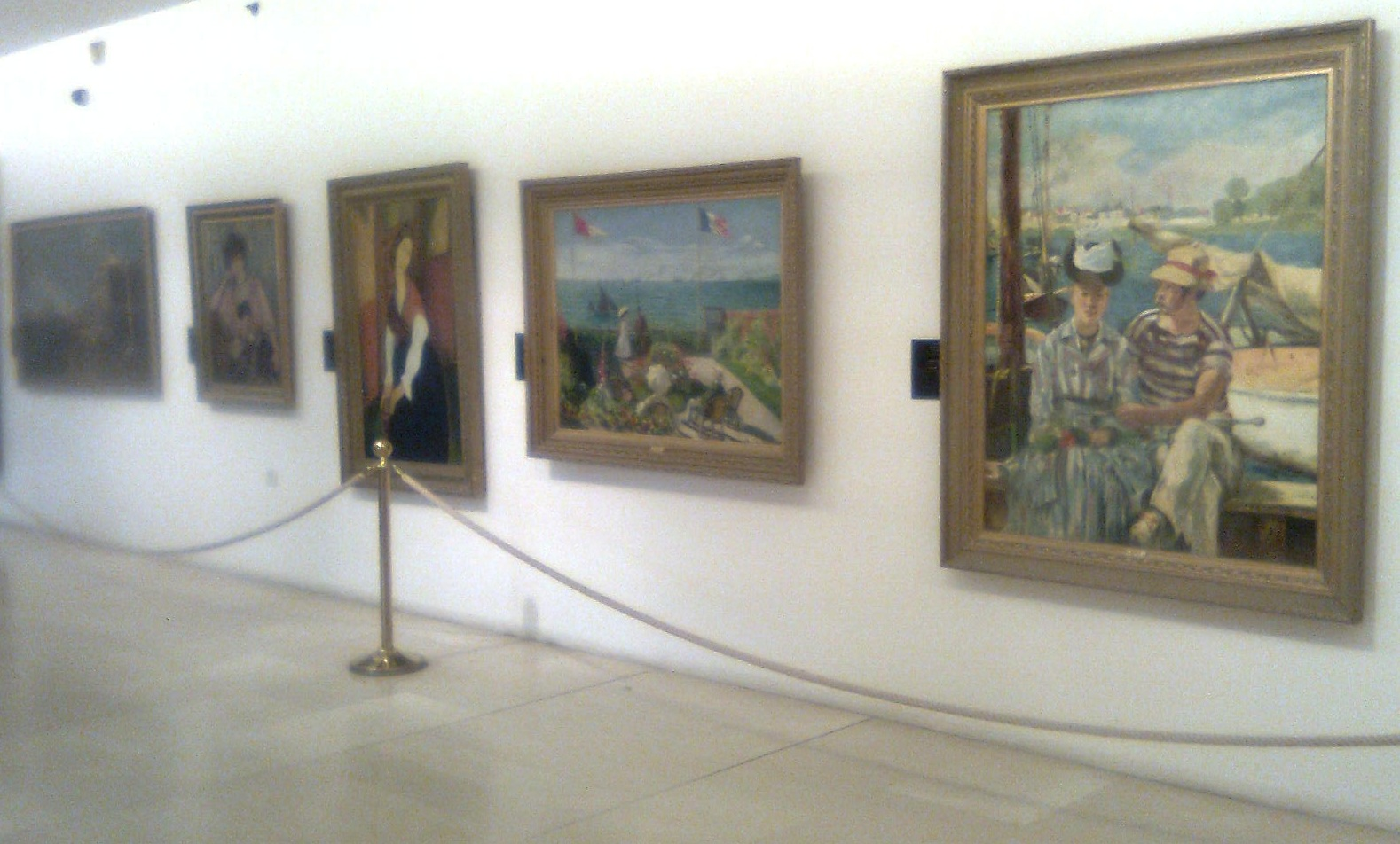 Copies of famous paintings, Museum of the History of Art, Beilinson hospital, Israel